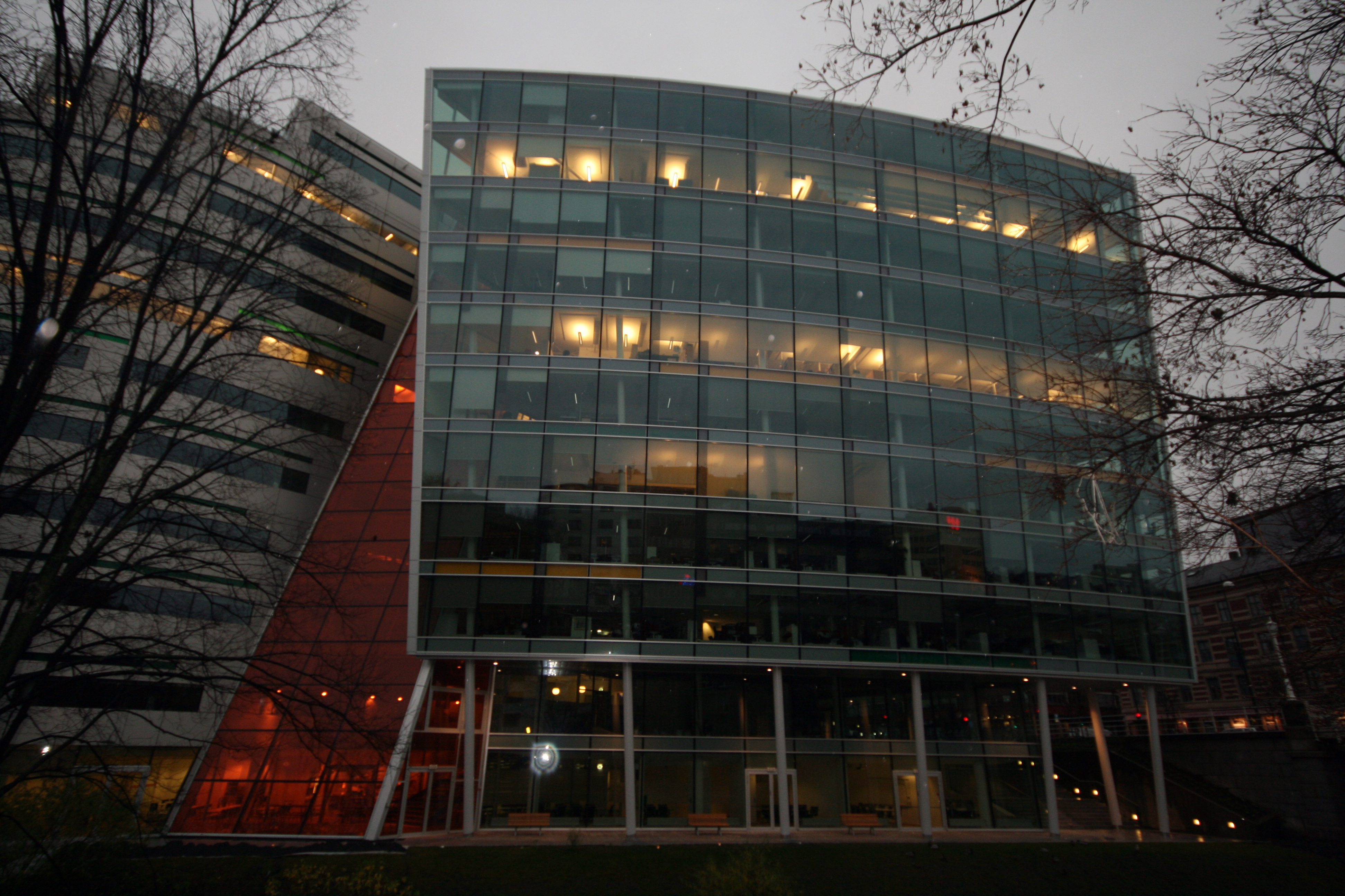 Christian Krohgs gate 16, new office building at Akerselva in downtown Oslo. Architects: Peter Pran (NBBJ, Pran Arkitekter AS/Bambus Arkitekter AS)